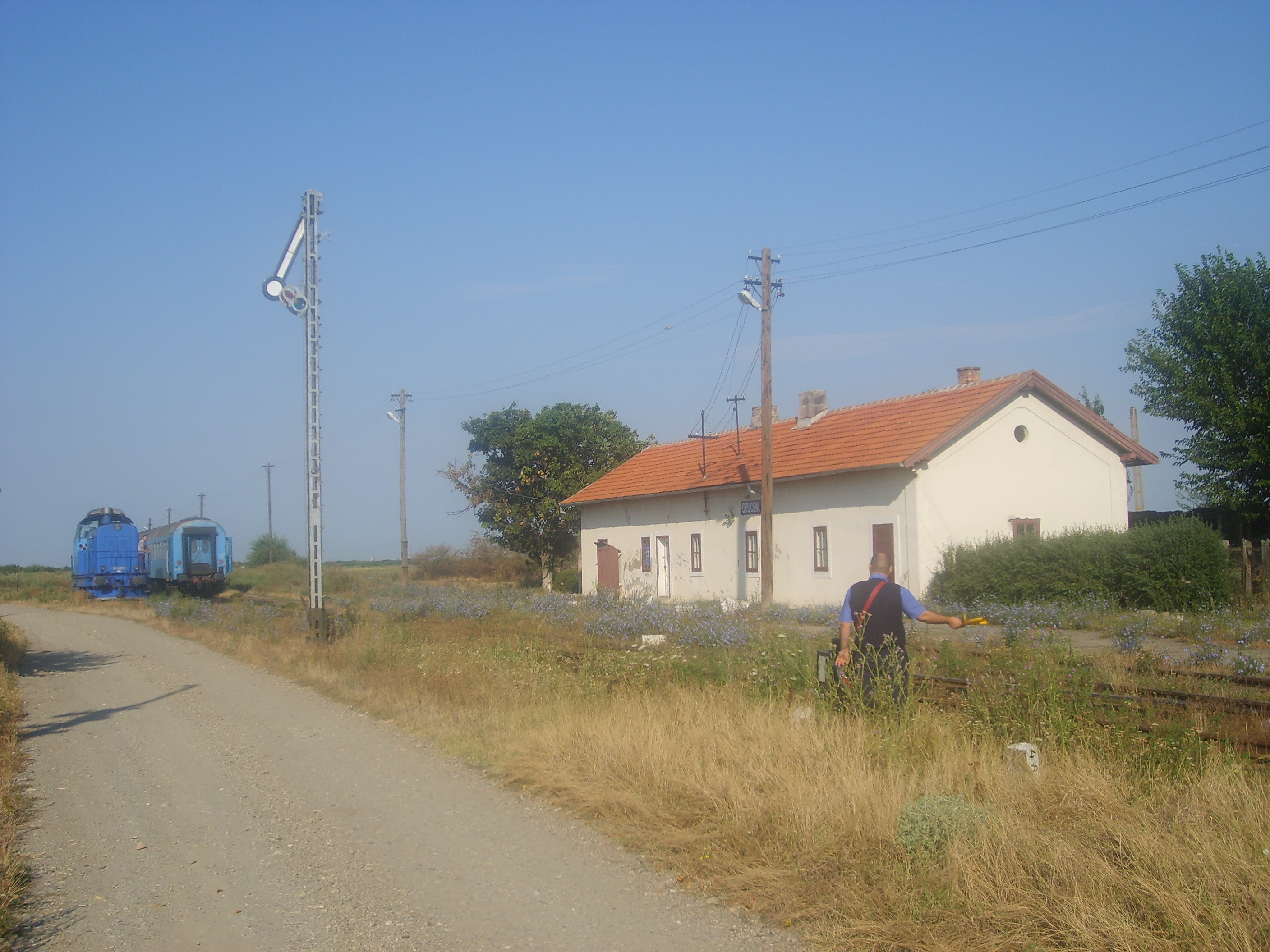 Train station in Cruceni (Hungarian: Temeskeresztes), a final stop on a railway from Timişoara. Before 1918, the railway continued to Modos (present-day Jaša Tomić in Serbia).